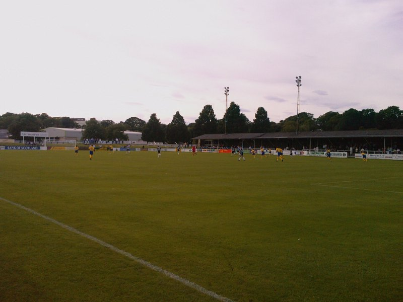 Borough Briggs, home stadium of Elgin City F.C., Elgin, Scotland